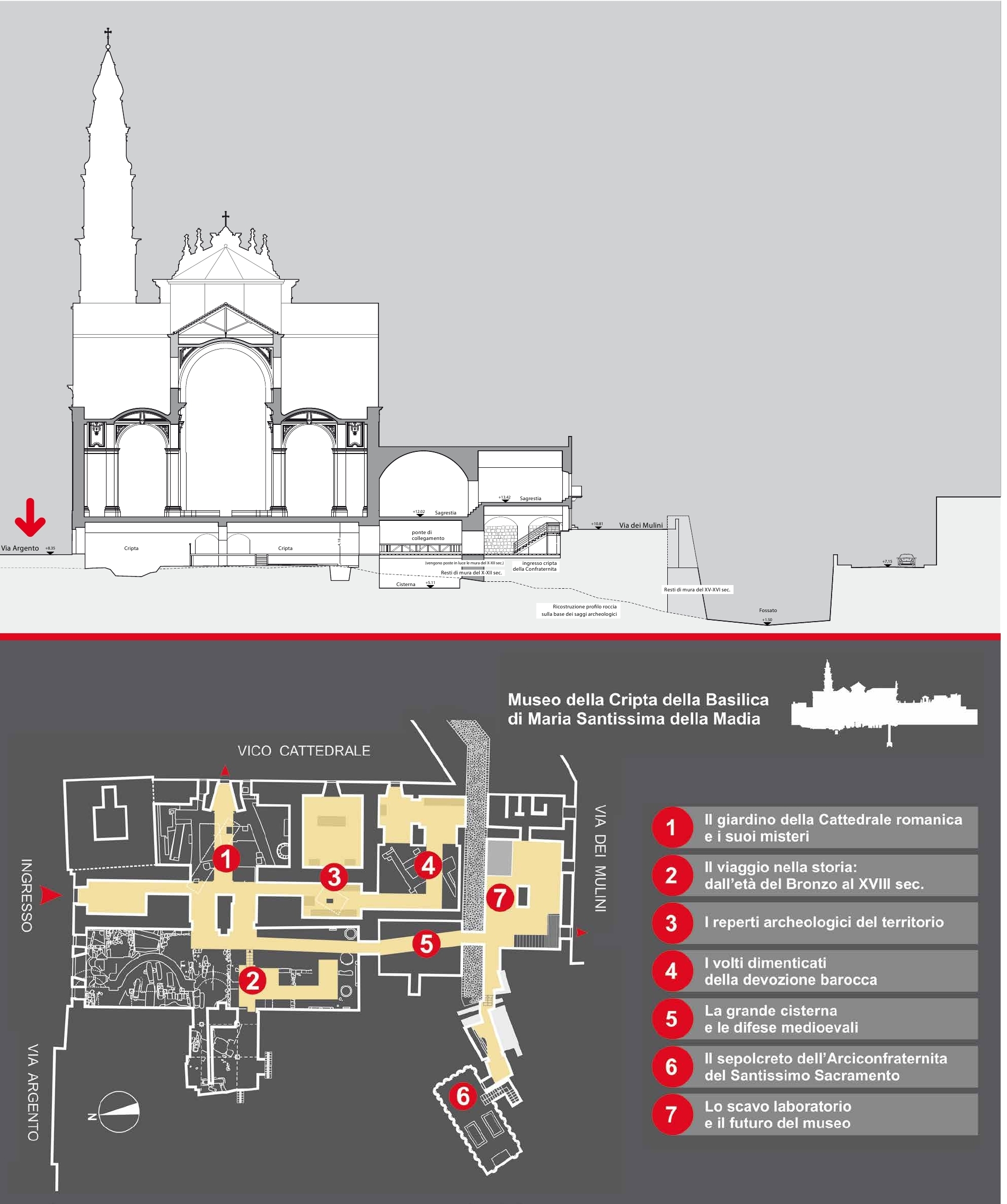 Catheral of Monopoli